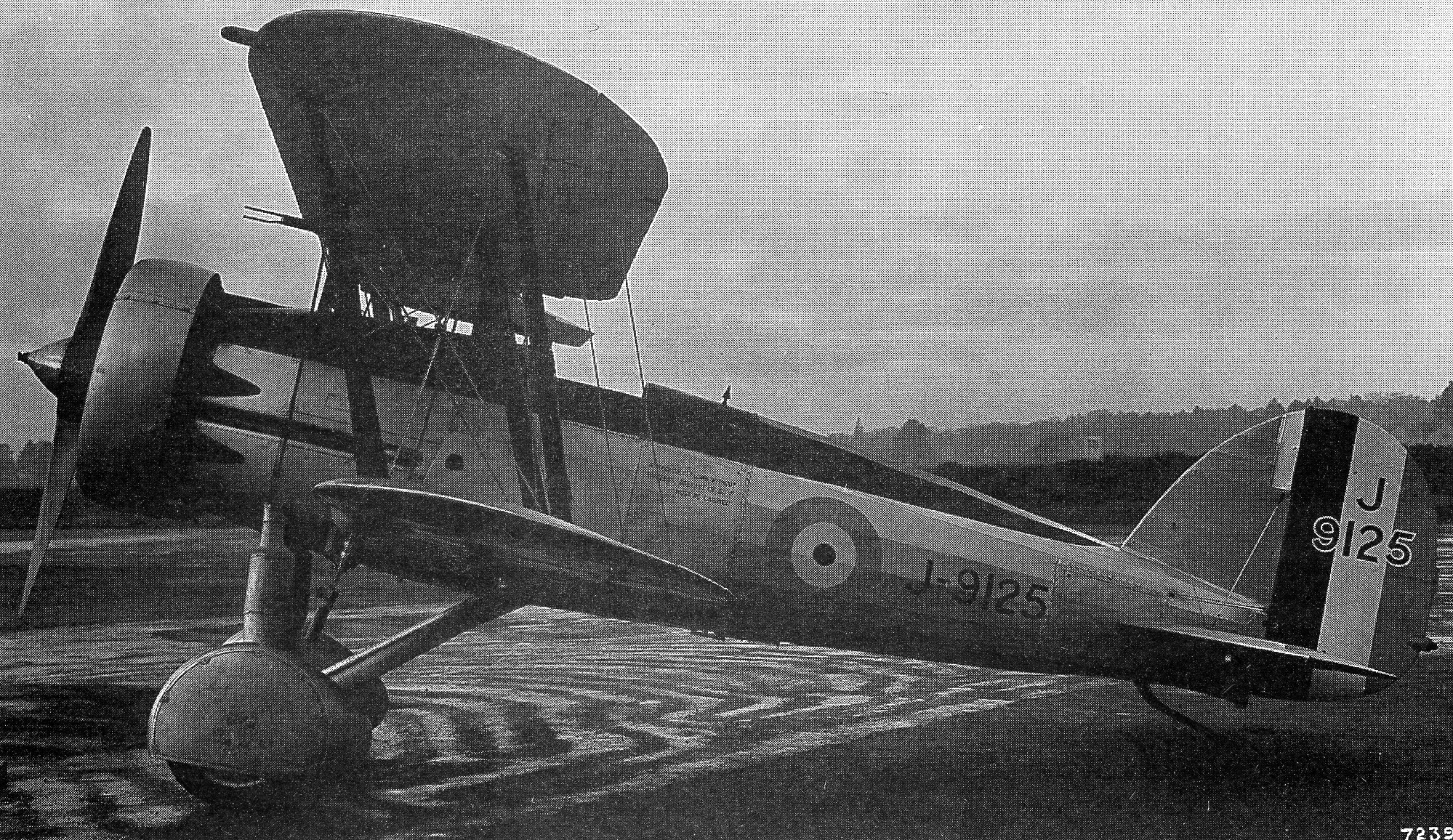 J9125 as the Gloster SS.19A, with Bristol Jupiter VIIFengine, December 1932